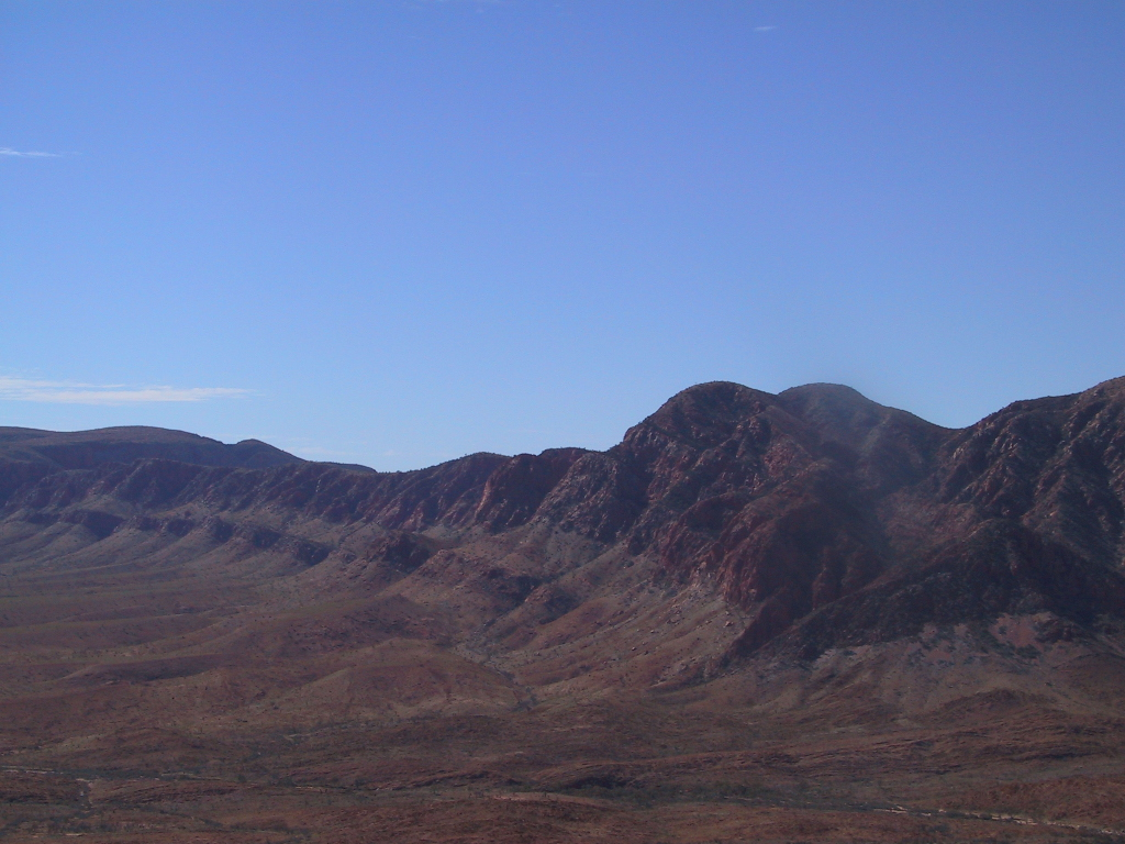 A view of the west half of Ormiston Pound in the West MacDonnell National Park, Northern Territory, Australia, taken in August 2004. The foreground mountain is Mount Giles.